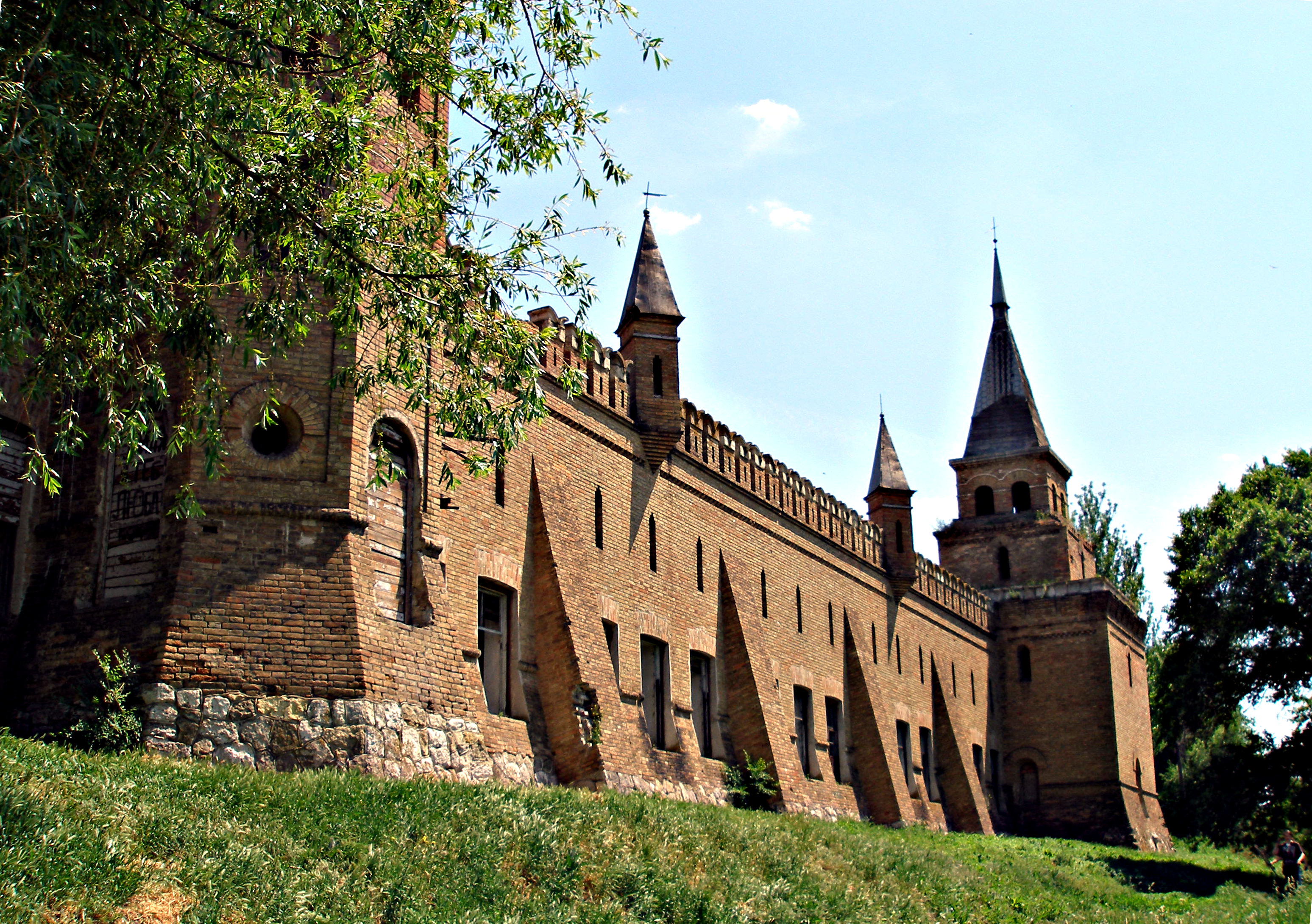 The wall of stable Popov's castle in Vasylivka